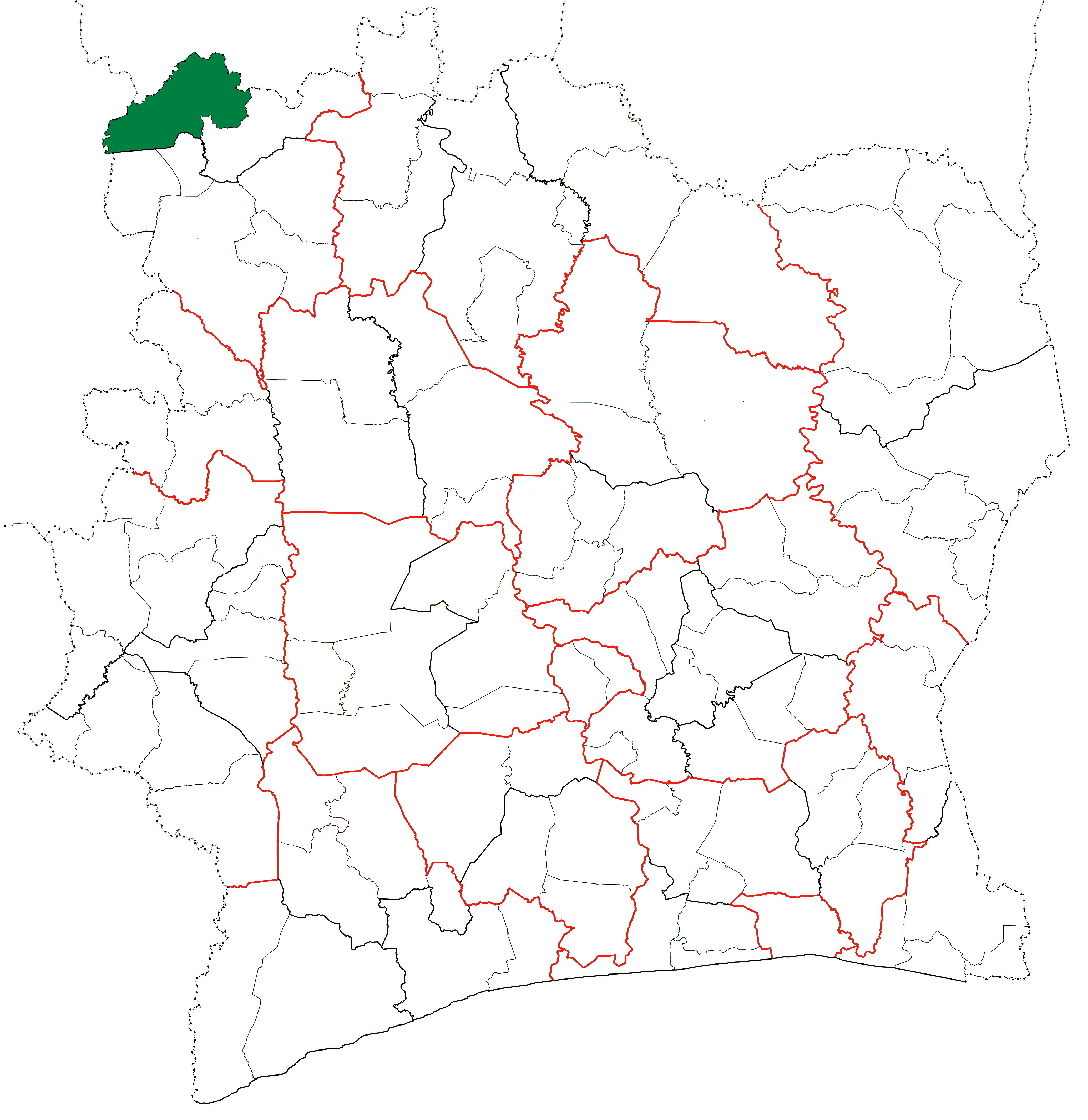 Locator map for Minignan Department in Côte d'Ivoire.